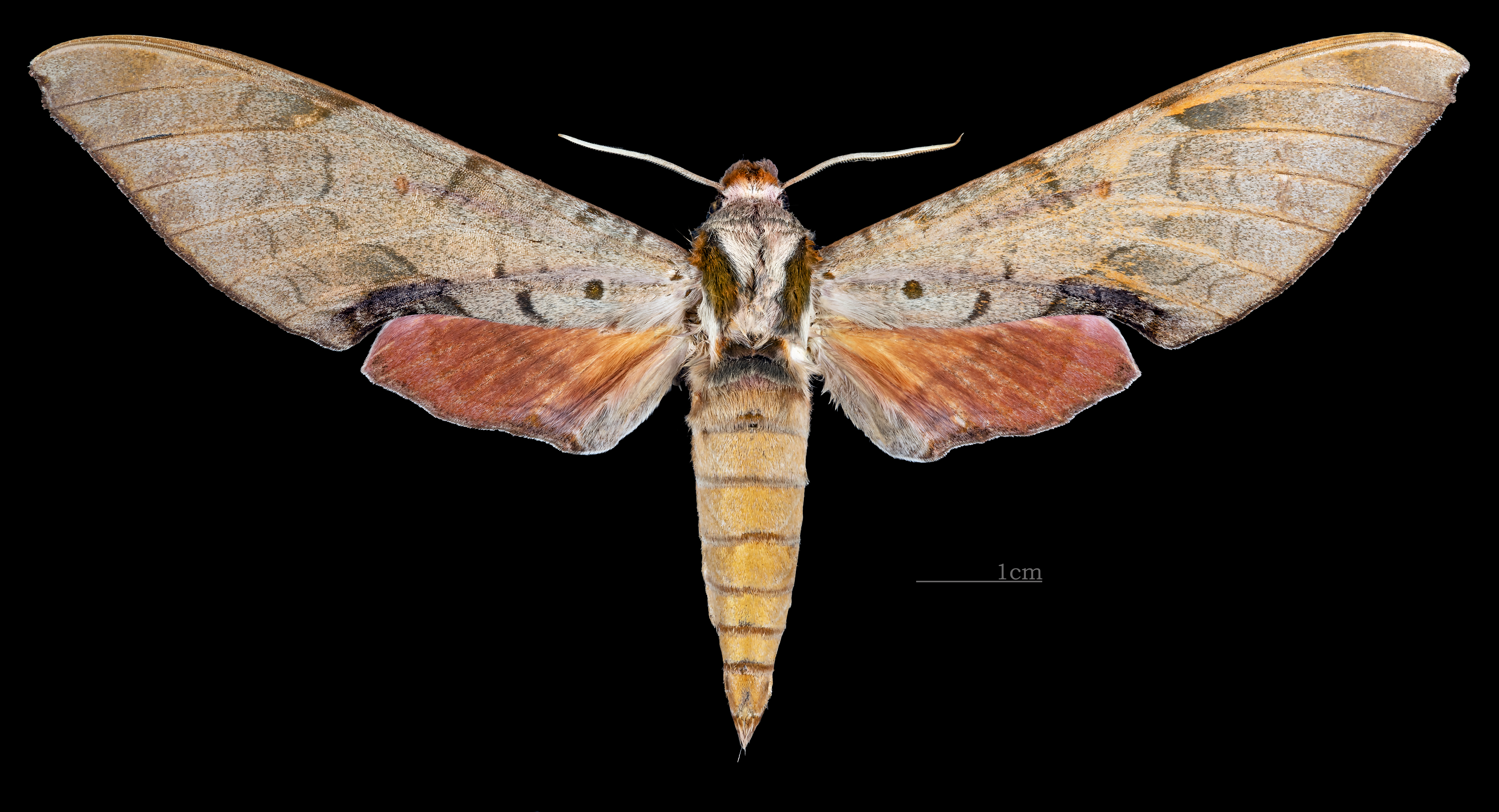 Protambulyx carteri - Dorsal side Collection of the Mathematician Laurent Schwartz